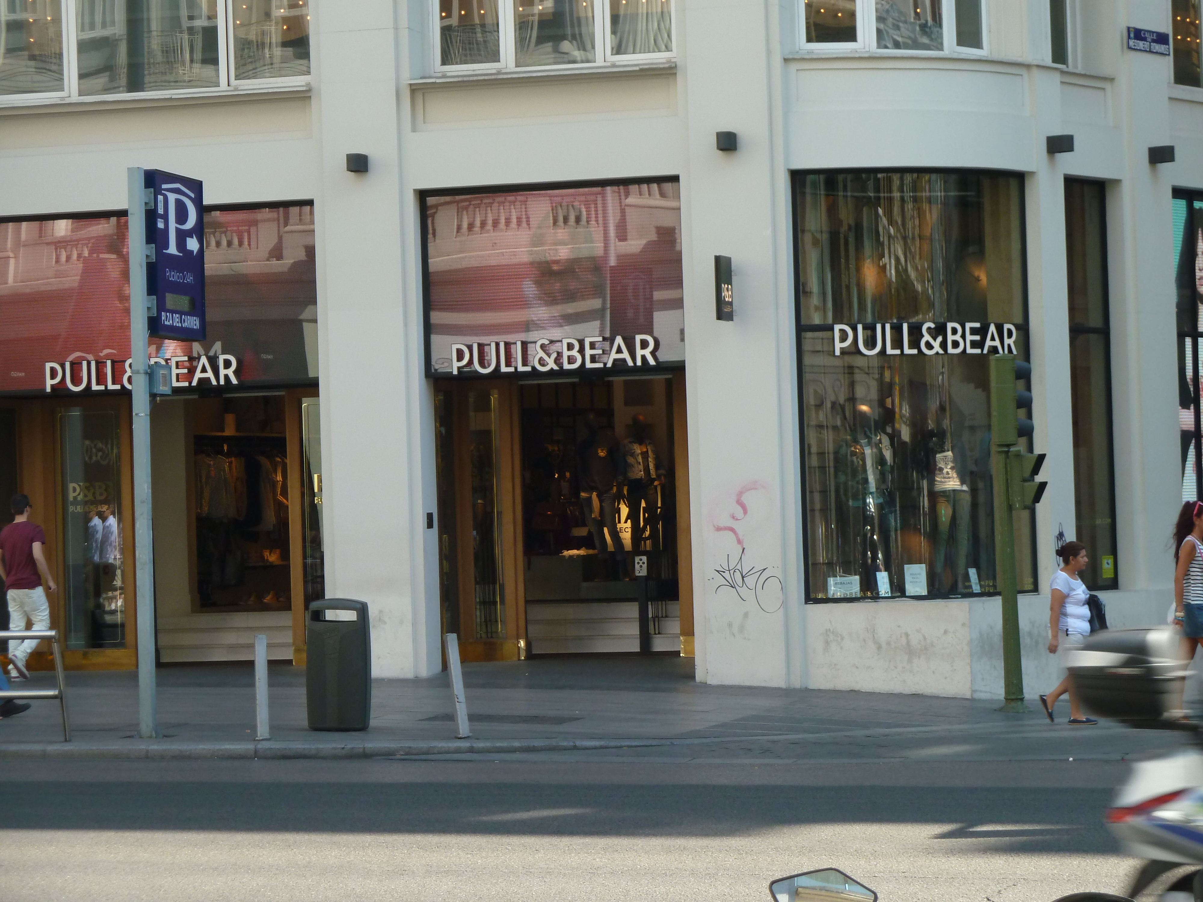 Pull & Bear store in Madrid, Gran Via.